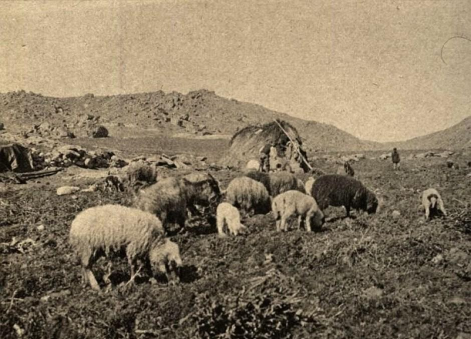 Historical village Pisokal, near Prilep, Macedonia